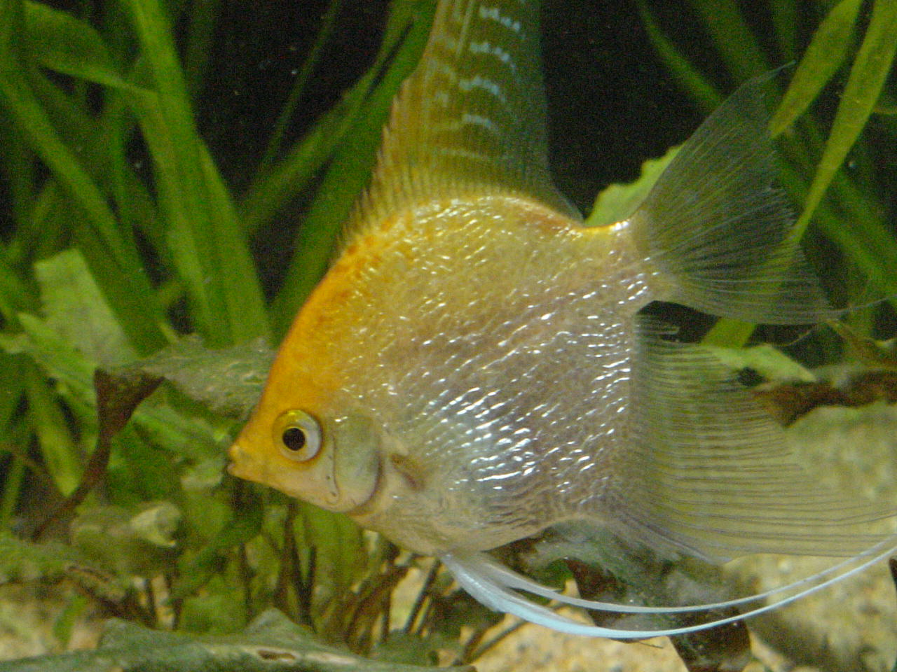 Pterophyllum Scalare "Gold Pearlscale"